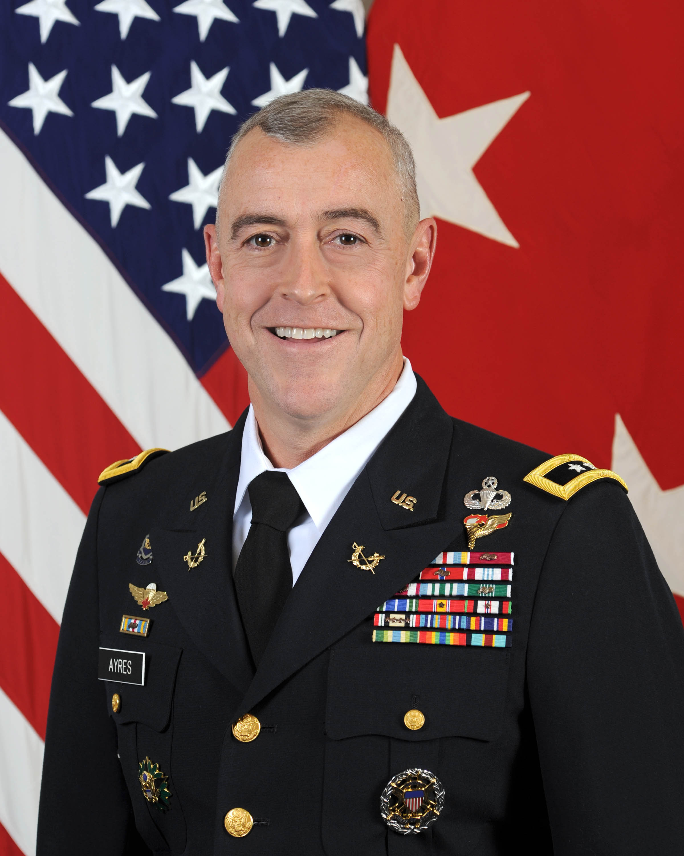 Official Government Photo of Major General Thomas E. Ayres, 20th Deputy Judge Advocate General of the Unites States Army